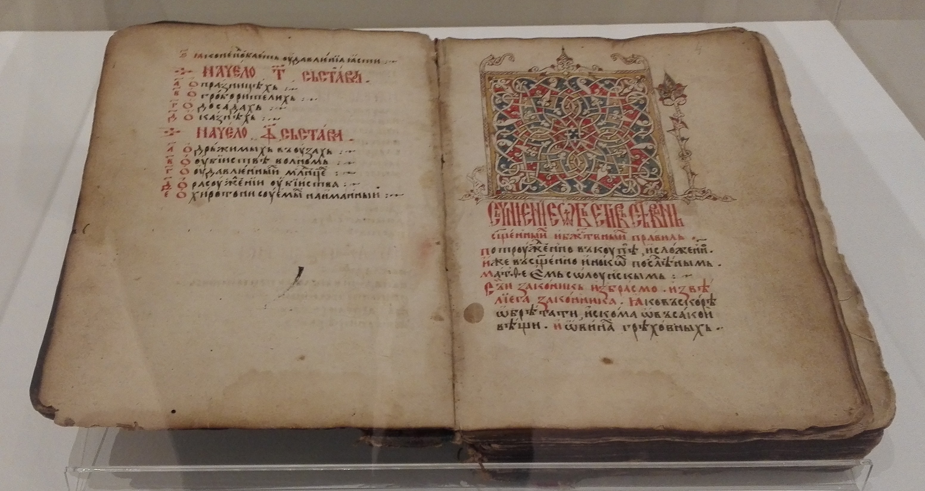 Code of Tsar Dušan, the so-called Prizren manuscript, 1515-1525 and 1570-1580 Belgrade, National library of Serbia